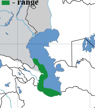 The range of the Eastern tubenose goby (Proterorhinus nasalis)